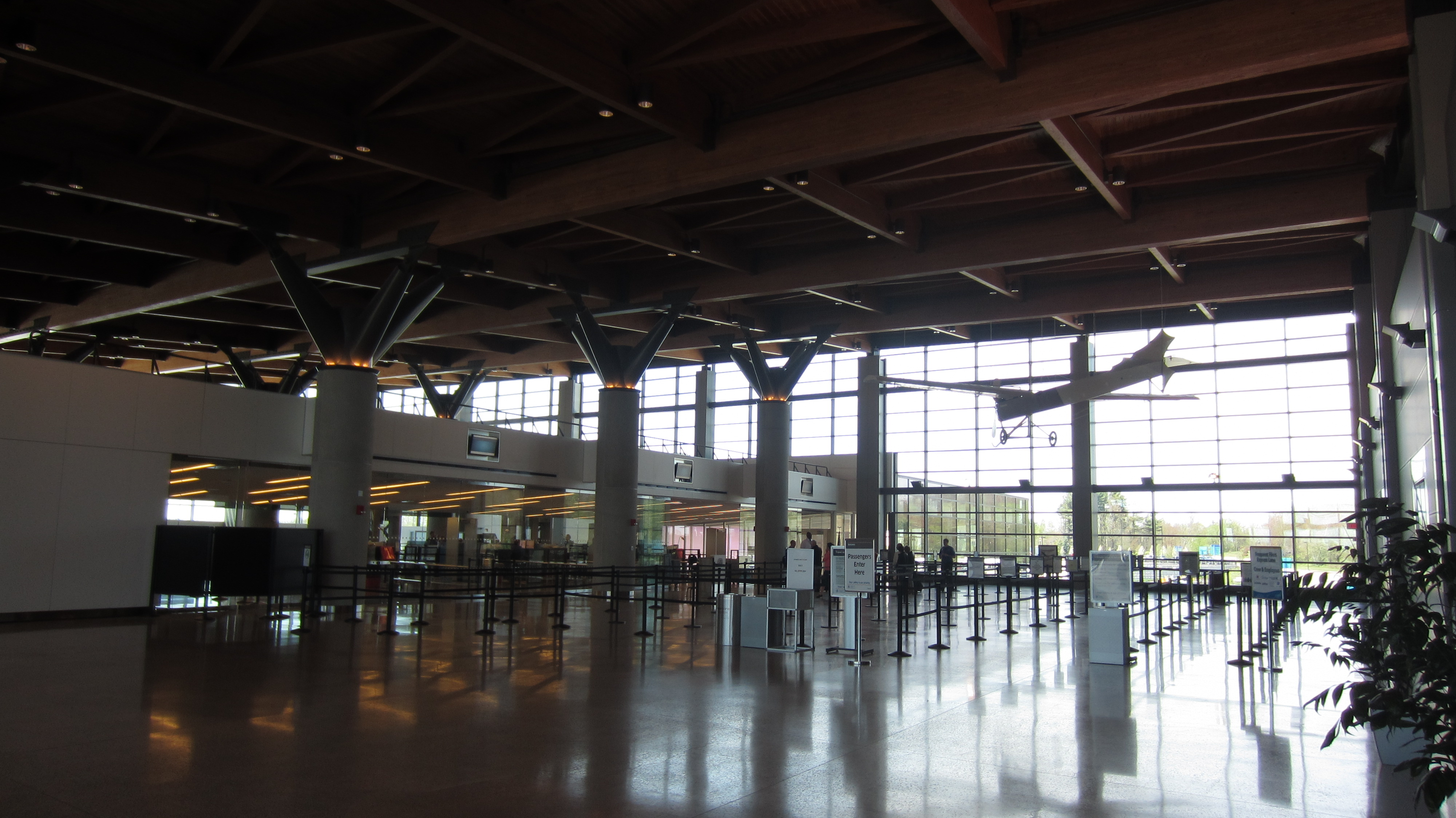 Security area inside new terminal at Jetport.